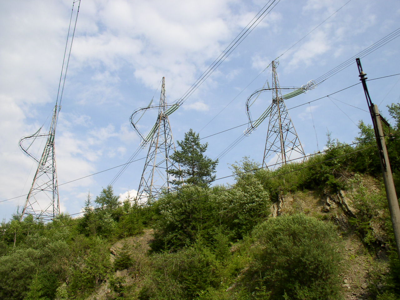 View from Kamianka-Buzka-Skole-Volovets railroad, Ukraine. Anchor pylon triple of the 750 kV Albertirsa–Vinnytsia power line north of Slavske, Skole Raion, Lviv Oblast (close to the confluence of Roshanka River/Рожанка into Opir River).